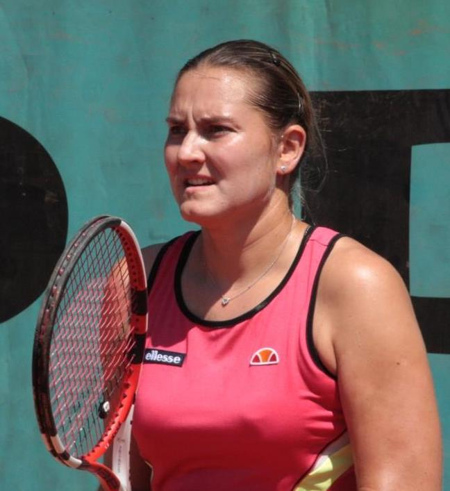 Nadia Petrova at 2009 Roland Garros, Paris, France